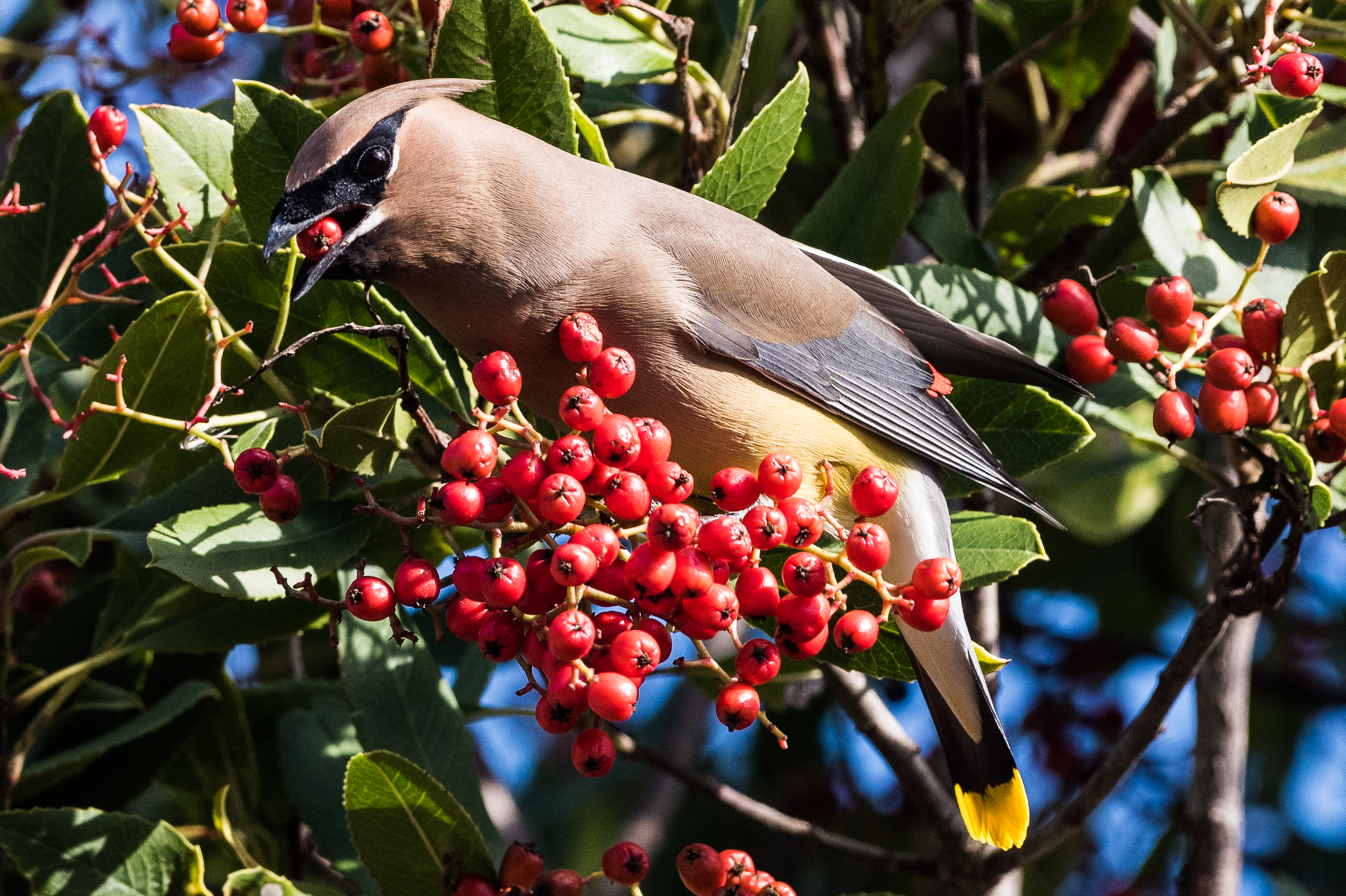 Eating Toyon Berries beside the Meeker Slough trail at Point Isabel Regional Shoreline, Richmond, CA